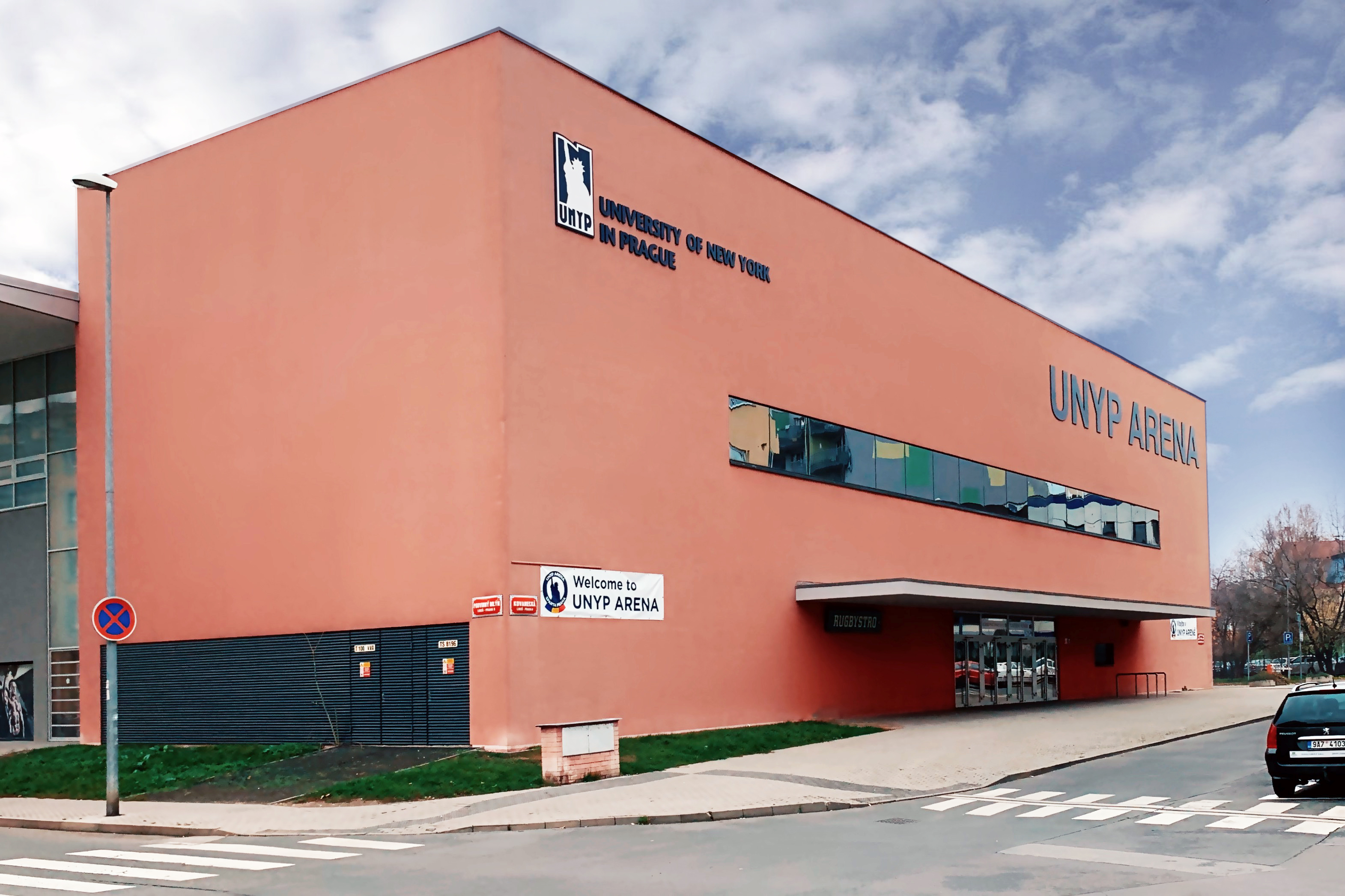 UNYP Arena Exterior